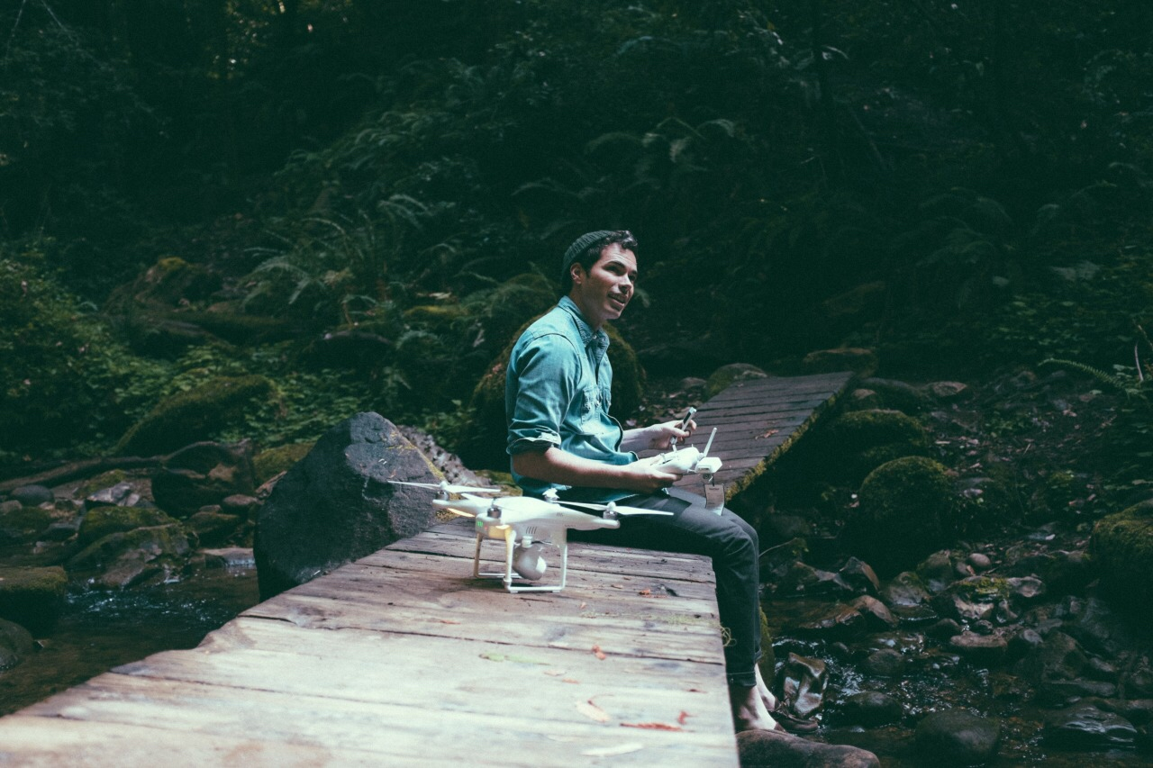 Piemonte at Big Basin Redwood State Park